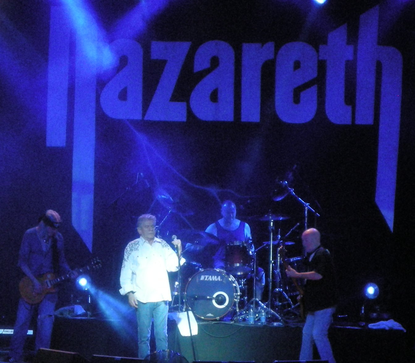 Nazareth live in Donetsk, September 30, 2012